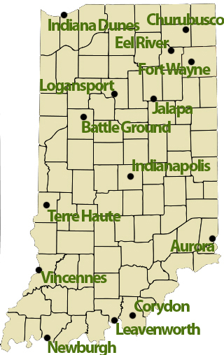 Location of battles fought in Indiana. Created by modifying an image on the commons.